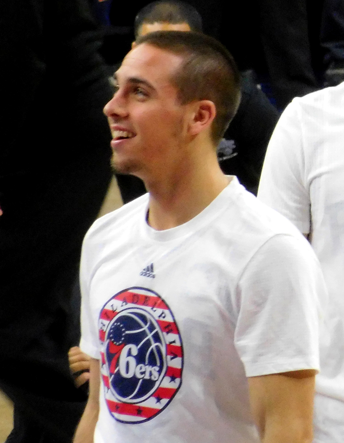 T. J. McConnell of the NBA's Philadelphia 76ers during pregame warm-ups prior to a match-up against the Orlando Magic.